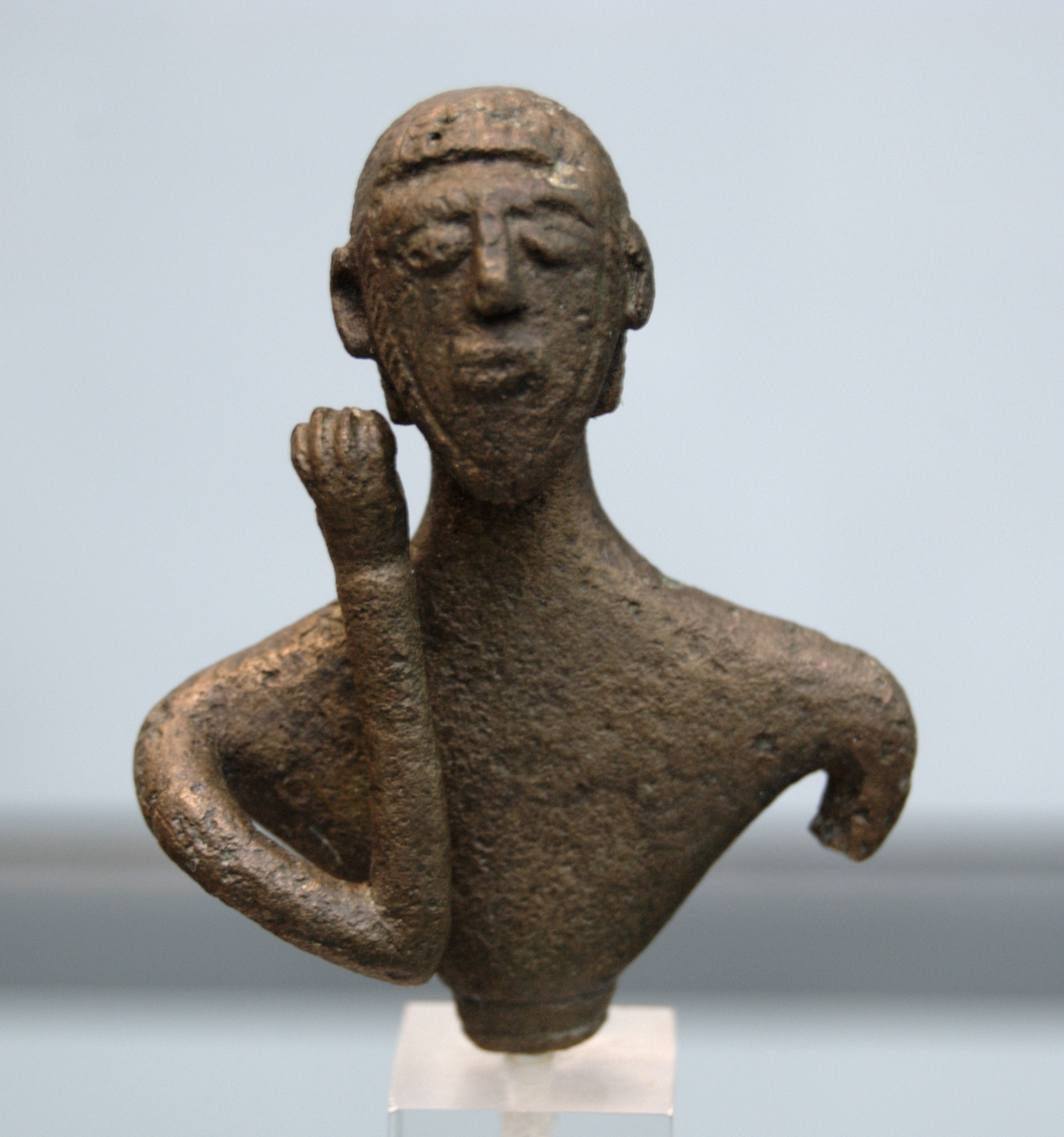 Warrior pointing a lance (raised arm); he is represented naked, in spite of military reality. Bronze, 8th century BC.